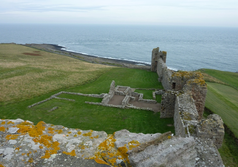 Dunstanburgh Castle, Northumberland, England. Constable's Tower.